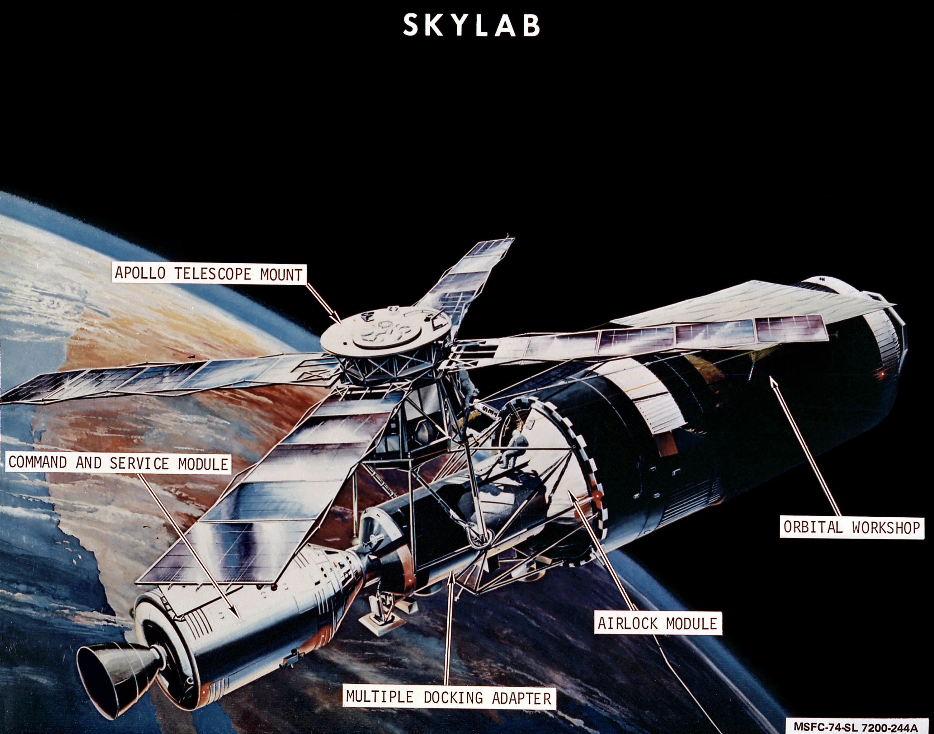 This image is an artist's concept of the Skylab in orbit with callouts of its major components. In an early effort to extend the use of Apollo for further applications, NASA established the Apollo Applications Program (AAP) in August of 1965. The AAP was to include long-duration Earth orbital missions during which astronauts would carry out scientific, technological, and engineering experiments in space by utilizing modified Saturn launch vehicles and the Apollo spacecraft. Established in 1970, the Skylab Program was the forerunner of the AAP. The goals of the Skylab were to enrich our scientific knowledge of the Earth, the Sun, the stars, and cosmic space; to study the effects of weightlessness on living organisms, including man; to study the effects of the processing and manufacturing of materials utilizing the absence of gravity; and to conduct Earth resource observations. The Skylab also conducted 19 selected experiments submitted by high school students. Skylab's 3 different 3-man crews spent up to 84 days in Earth orbit. The Marshall Space Flight Center (MSFC) had responsibility for developing and integrating most of the major components of the Skylab: the Orbital Workshop (OWS), Airlock Module (AM), Multiple Docking Adapter (MDA), Apollo Telescope Mount (ATM), Payload Shroud (PS), and most of the experiments. MSFC was also responsible for providing the Saturn IB launch vehicles for three Apollo spacecraft and crews and a Saturn V launch vehicle for the Skylab.